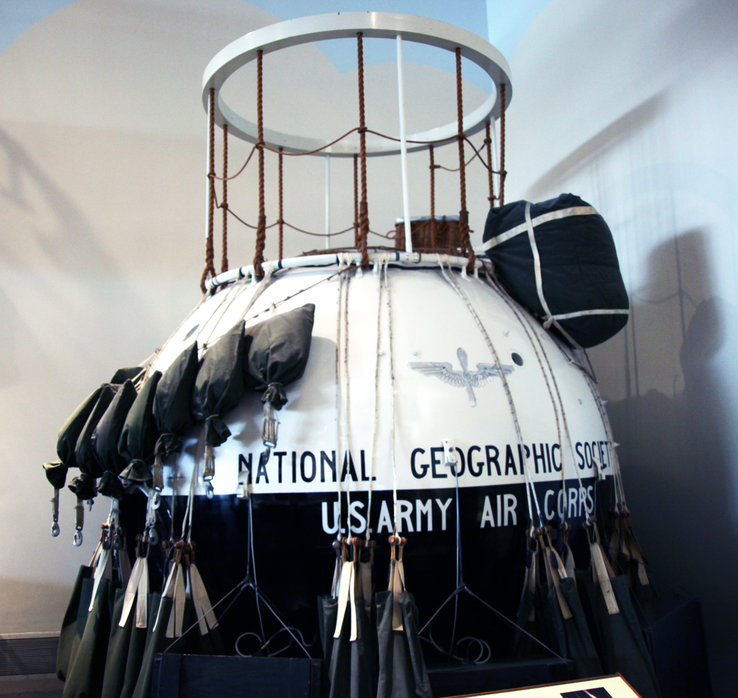 The gondola of the Explorer II, a balloon co-sponsored by the National Geographic Society and the U.S. Army Air Corps, on display in the Smithsonian Air and Space Museum in Washington, D.C. The goal was to build a balloon of reaching the stratosphere (6 to 30 miles above the surface of the Earth). The first balloon, Explorer, lifted off on July 28, 1934. On board were Captain Albert Stevens, Captain Orvil Anderson, and Major William E. Kepner. The balloon ruptured after seven hours of flight. It disintegrated, and the gondola went into free-fall. The remaining hydrogen in the balloon exploded at 5,000 feet. Stevens and Anderson bailed out. Kepner, too, bailed -- but only a mere 500 feet above the earth. All three survived. Explorer missed a world altitude record by 624 feet. It turns out that small folds in the balloon had stressed it, causing the tears. A second balloon, Explorer II, used helium rather than hydrogen. More than 20,000 people watched as it lifted off in November 11, 1935. Explorer II set a world altitude record of 72,395 feet. Anderson, Kepner, and Stevens were the first men to see the curvature of the Earth.